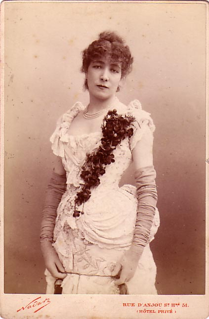 French actress Sarah Bernhardt (1844-1923).